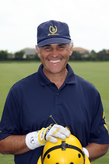 Portrait of Memo Gracida